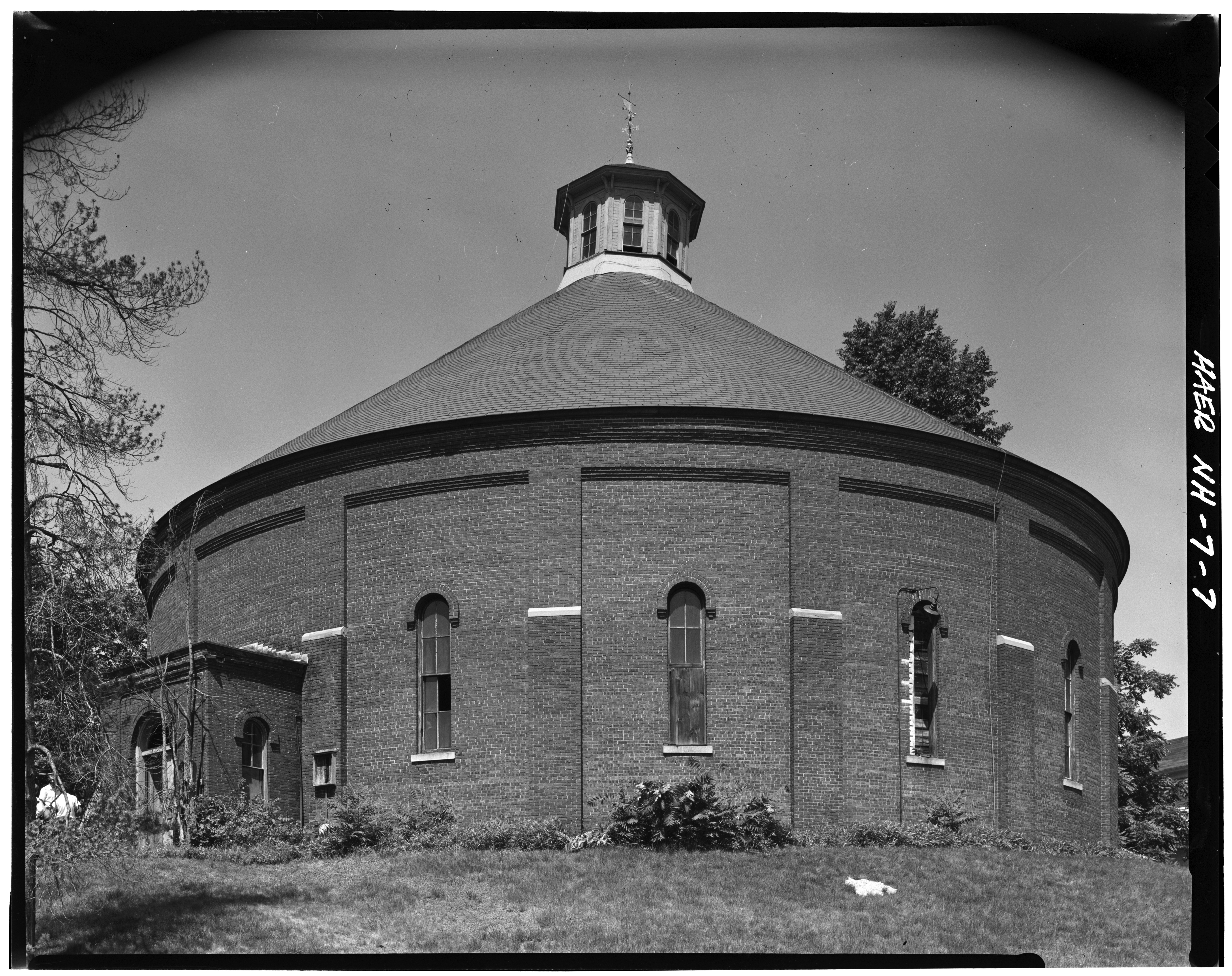 Gasholder House (Concord Gas Light Company), Concord, New Hampshire, USA. Built 1888. This image is part of the Historic American Engineering Record (HAER), created by the Library of Congress, and hence is in the public domain. Survey number: HAER NH-7. Gary Samson, photographer, 1982.